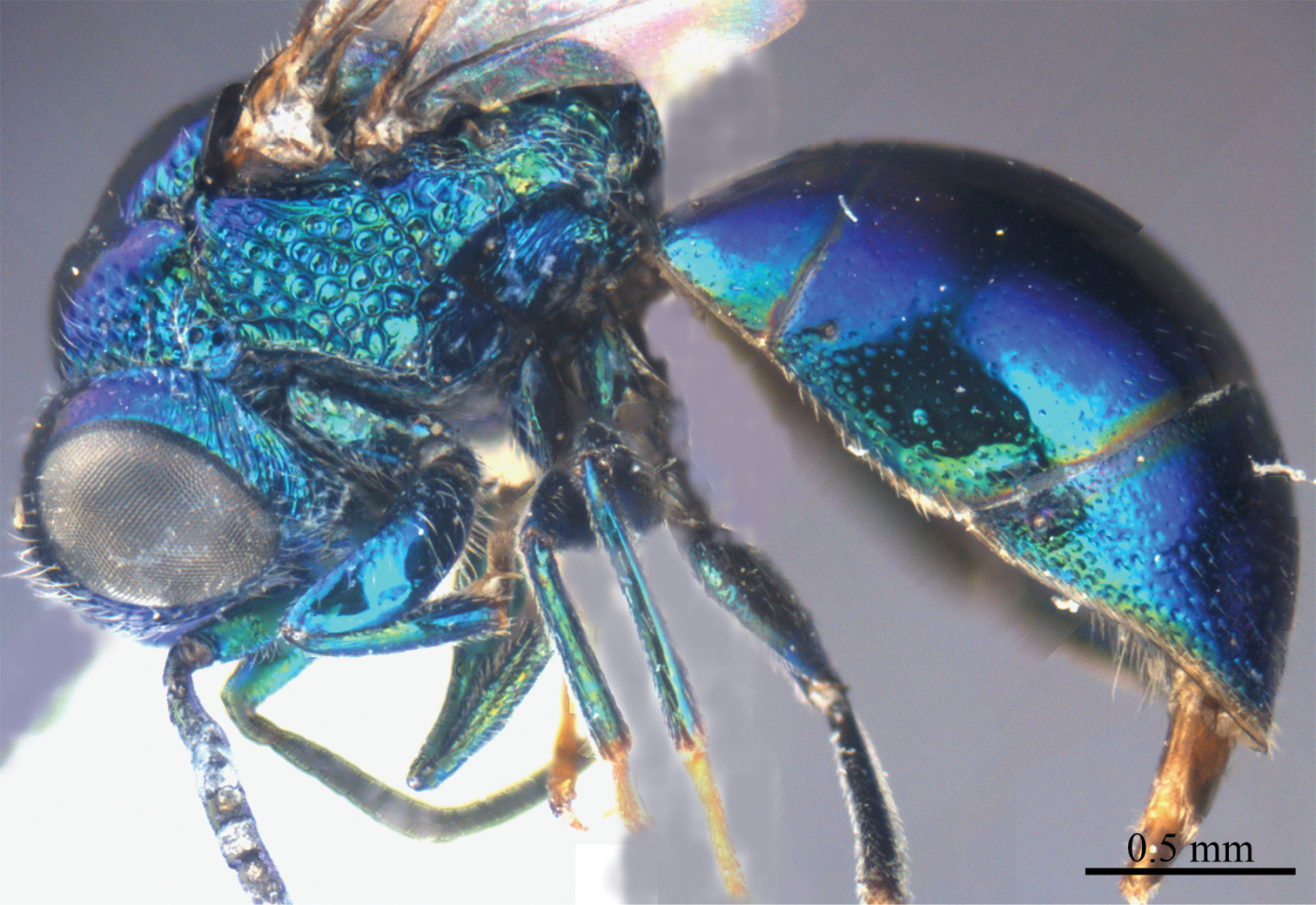 Omalus pseudoimbecillus (Wei, Rosa, Liu & Xu, 2014), holotype, female from Yunnan. Habitus lateral.